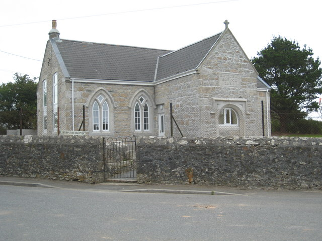 Original Wendron School building The plaque on the gable end reads 'National School 1836'. There is now a modern school building just across the road from here.